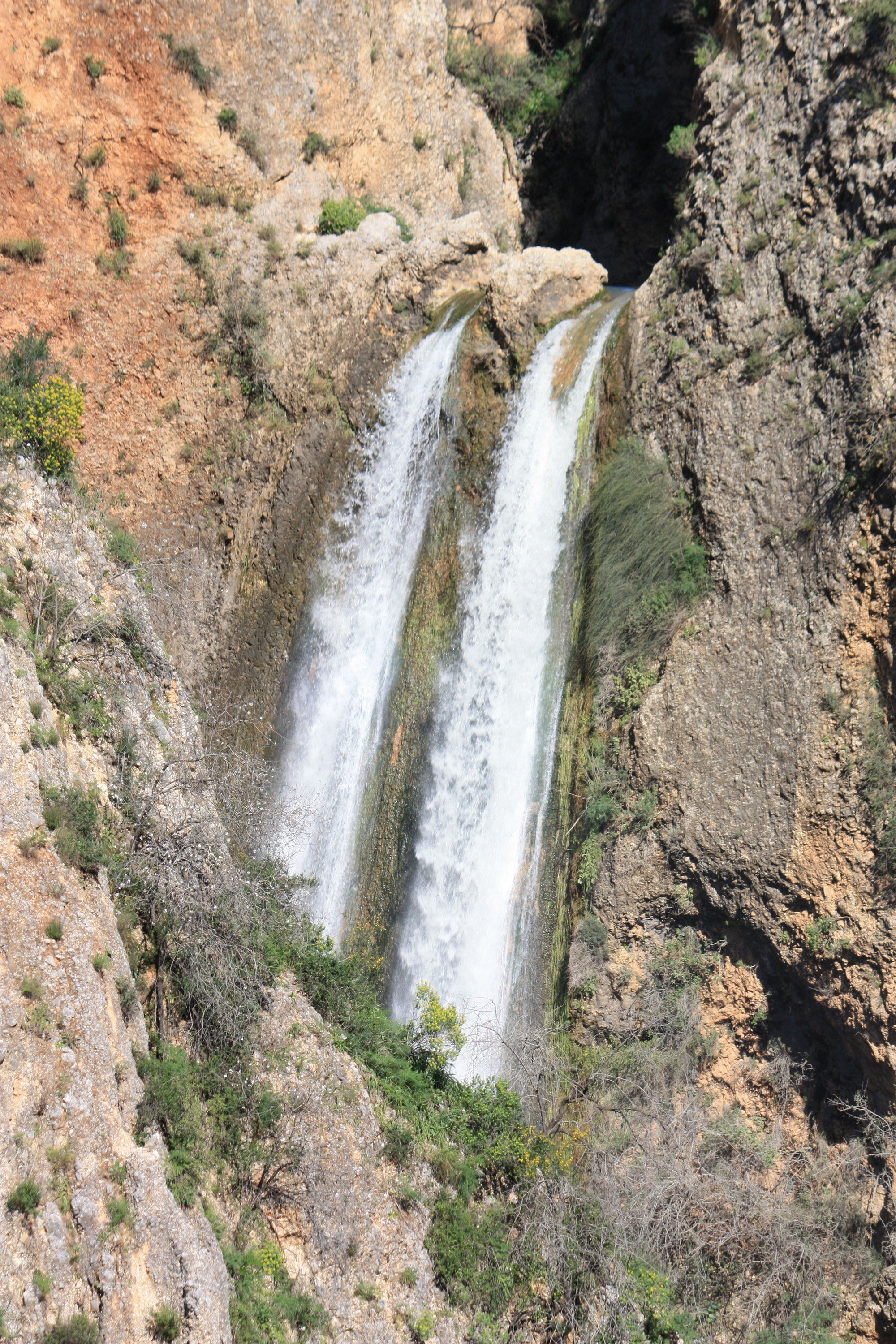 Tanur fall in Ayun river, northern Israel (sorry for the poor quality)